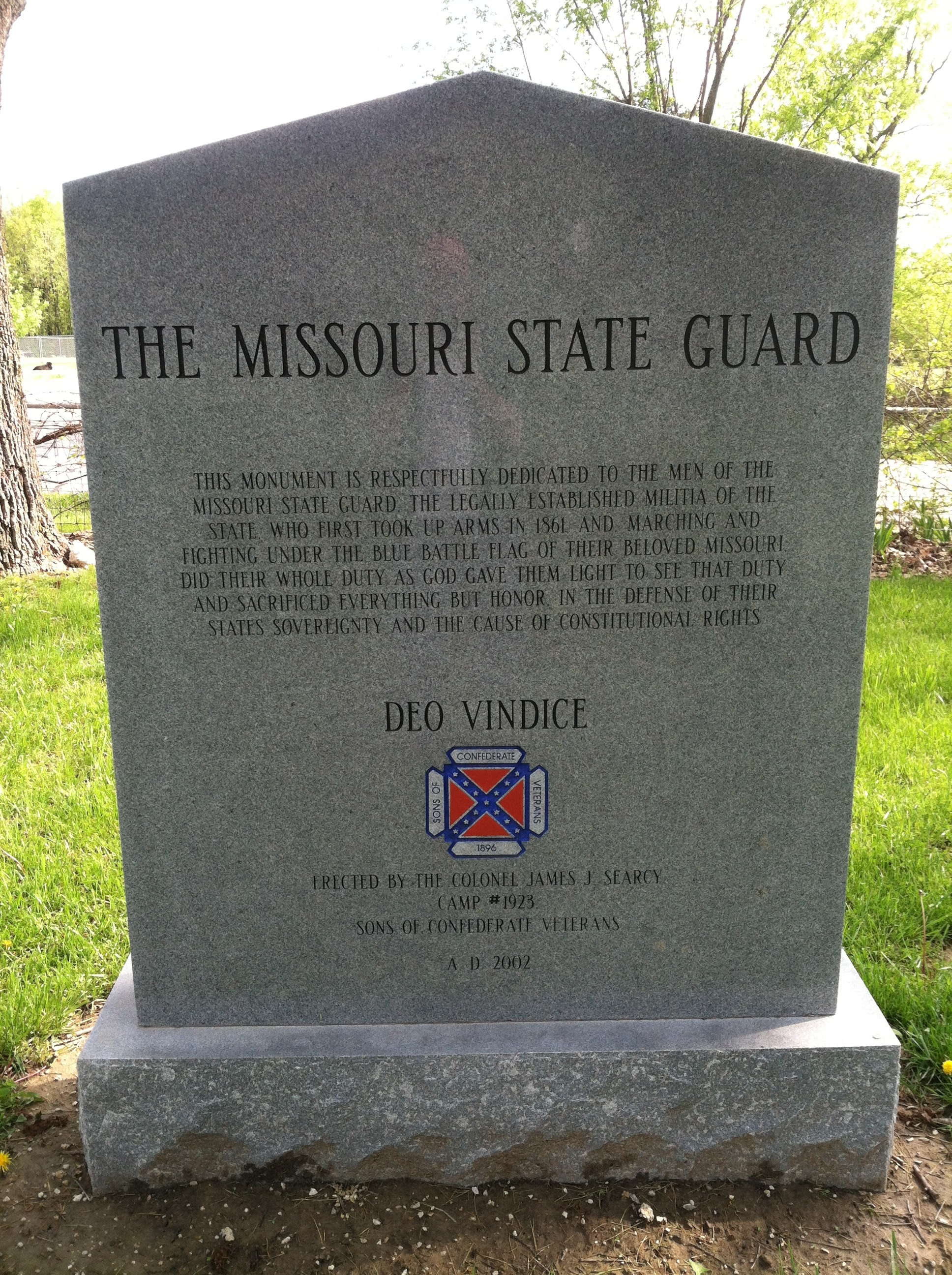 Memorial for the battle of Mt. Zion in front of the Mt. Zion Baptist Church in Boone County, Missouri.